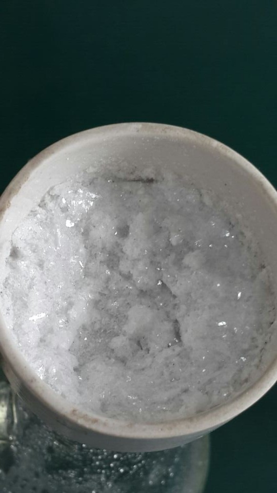 Acetanilide in suction filtration. Photo taken at Zhejiang University.